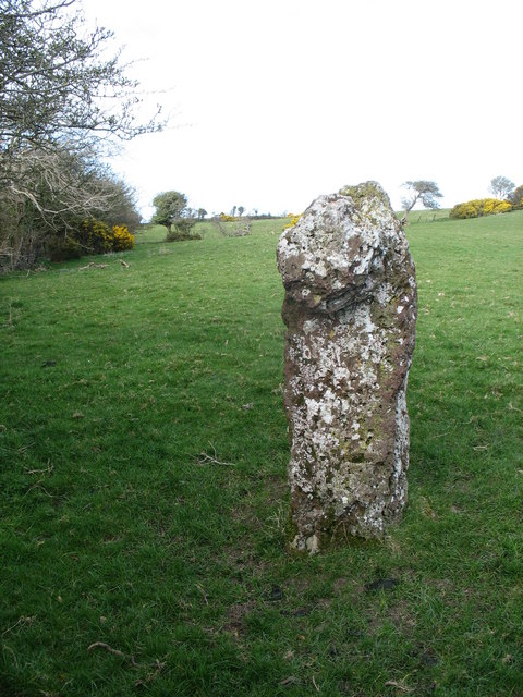 Carreg Leidr - the petrified remains of the Llandyfrydog Bible Thief, near to Llandyfrydog, Isle of Anglesey/Sir Ynys Mon, Great Britain. According to an old local legend. this standing stone which has a prominent bulge on one side, is the petrified body of thief who was making his getaway after stealing the bible from Llandyfrydog Church, the stolen bible being carried in a sack on his back. The road from this spot to Llandyfrydog Church is known as Lon Leidr (Thief's Lane)